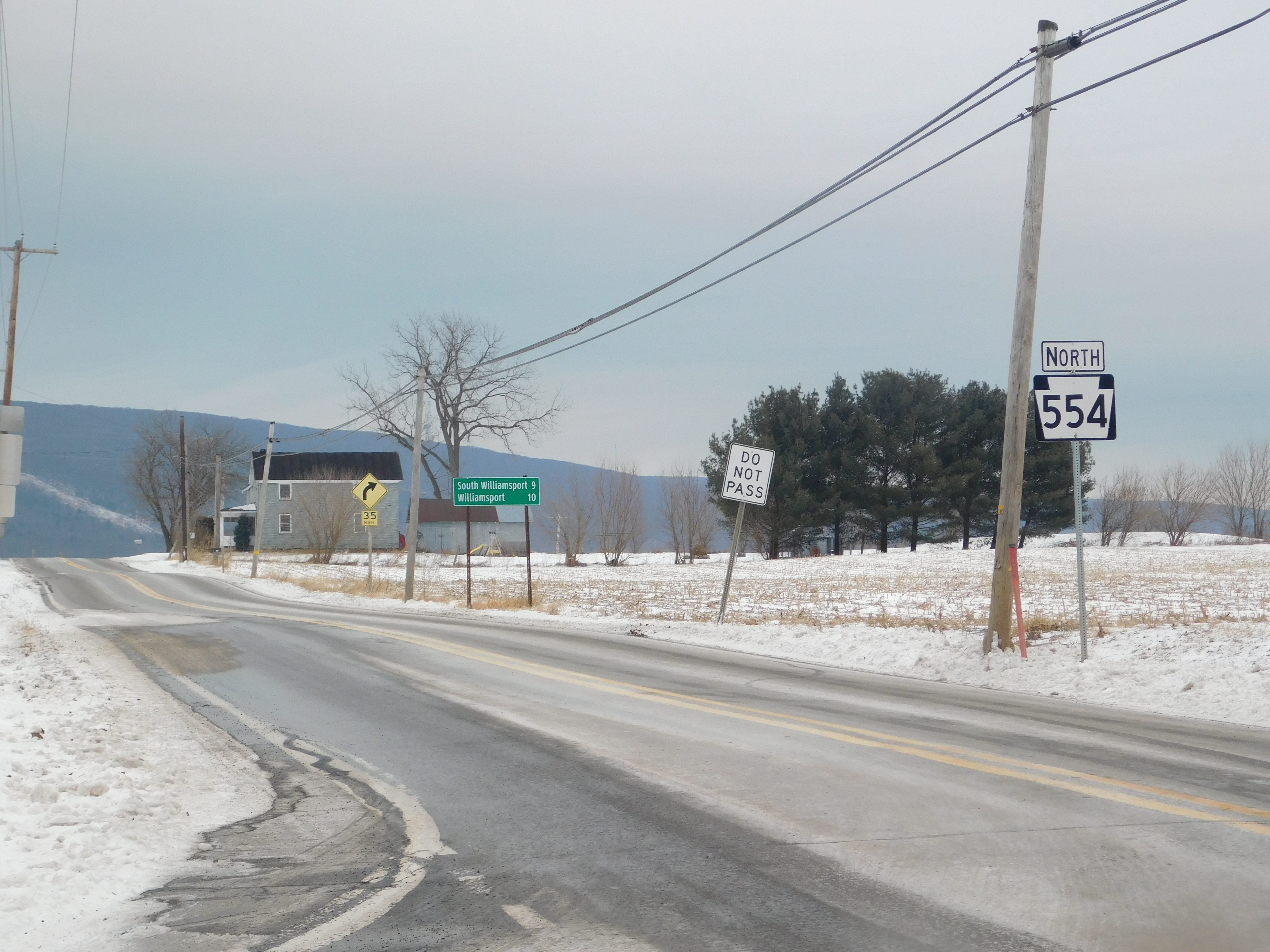 PA 554 in Elmsport, Pennsylvania.